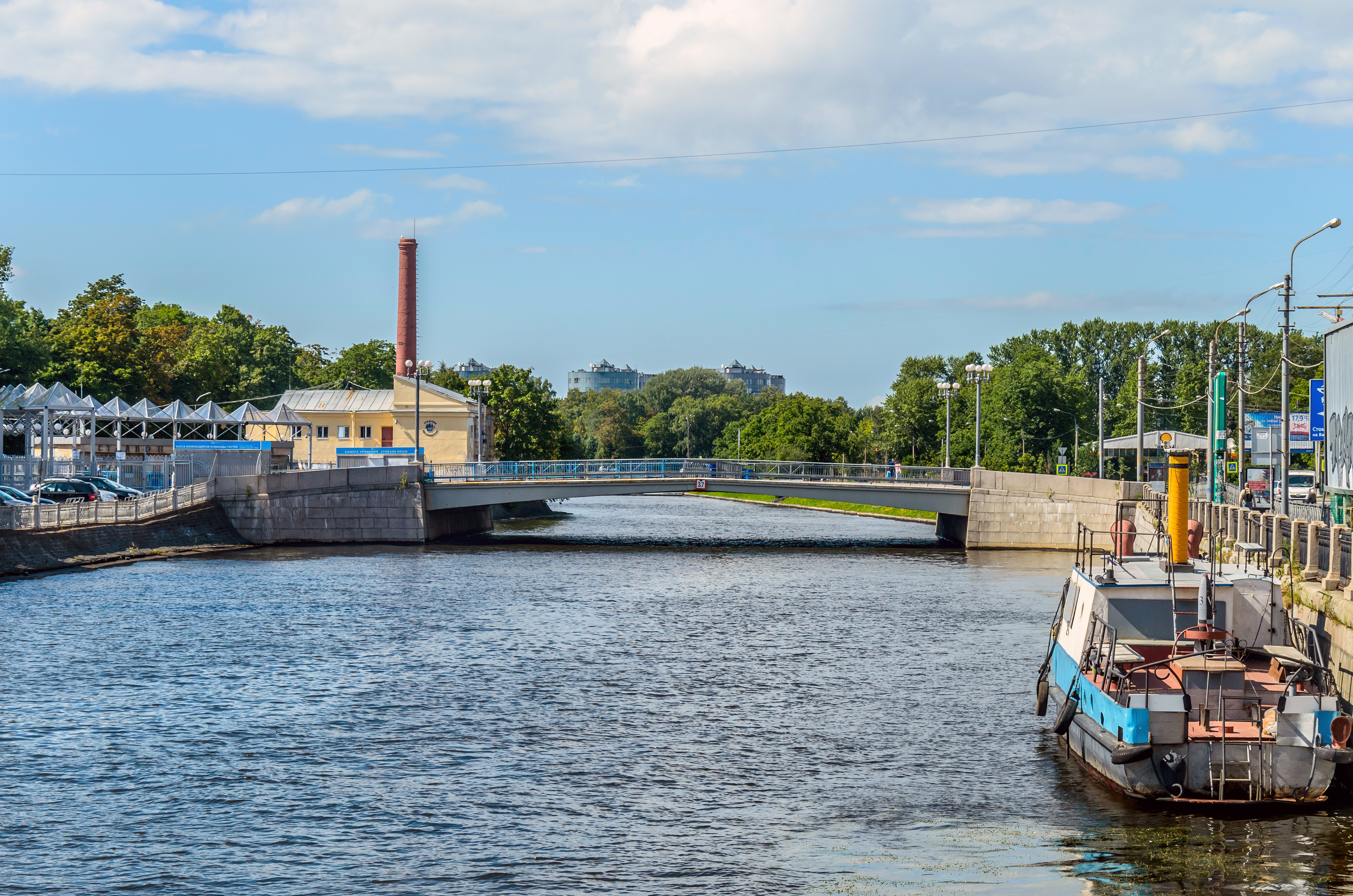 Zhdanovsky Bridge in Saint Petersburg